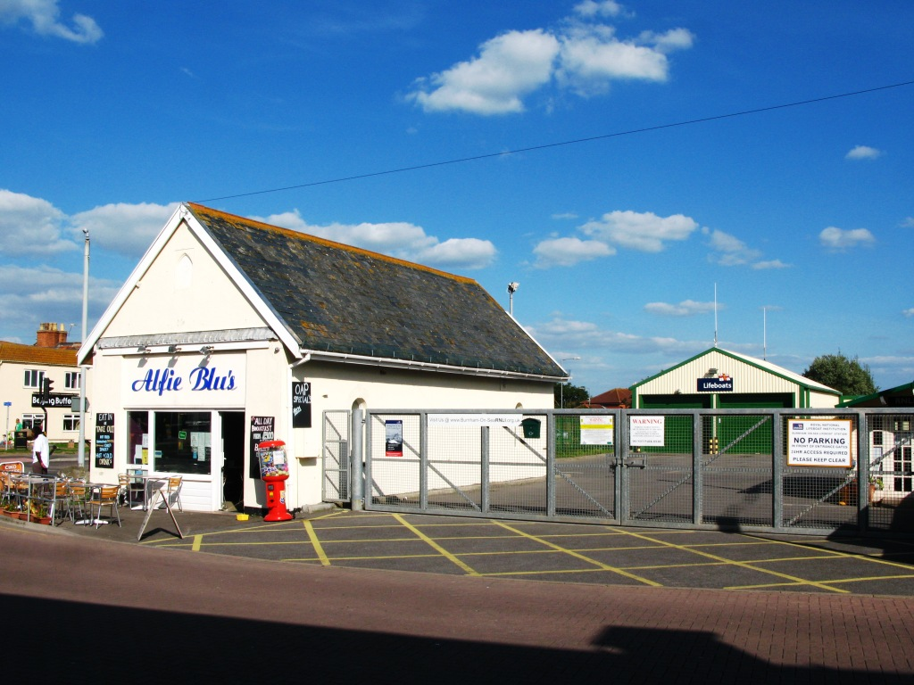 This cafe used to be the lifeboat station at Burnham-on-Sea, Somerset, England. The green and cream structure behind it is the present day facility.